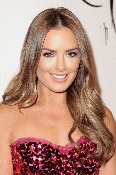 This is a photo of artist, actress/model Beau Dunn at the 6th annual Art of Elysium.